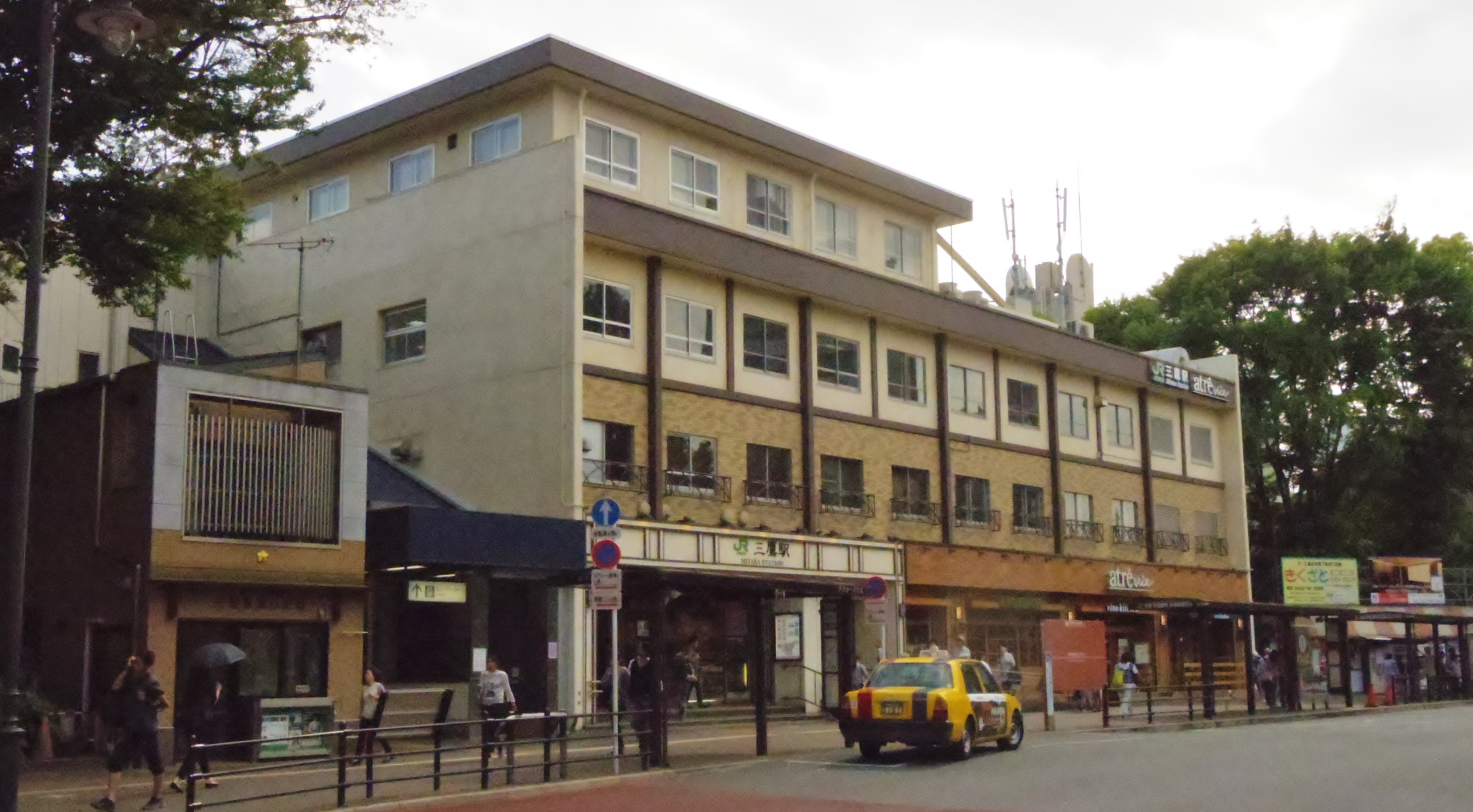 The north entrance of Mitaka Station on the Chuo Line in Tokyo, Japan